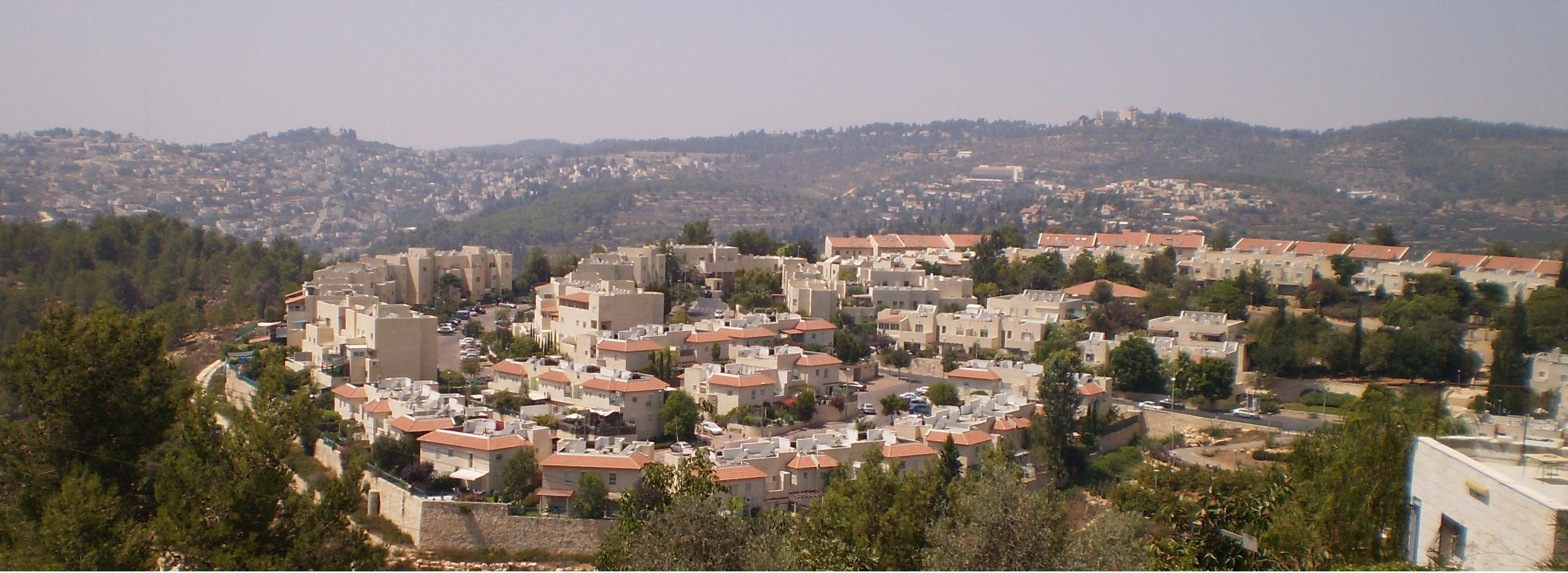 A neighborhood in Maoz Zion